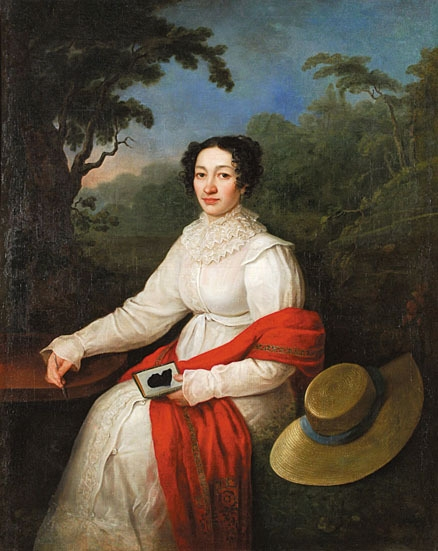 Portrait of Agraphena Nikolaevna Kozljaninova